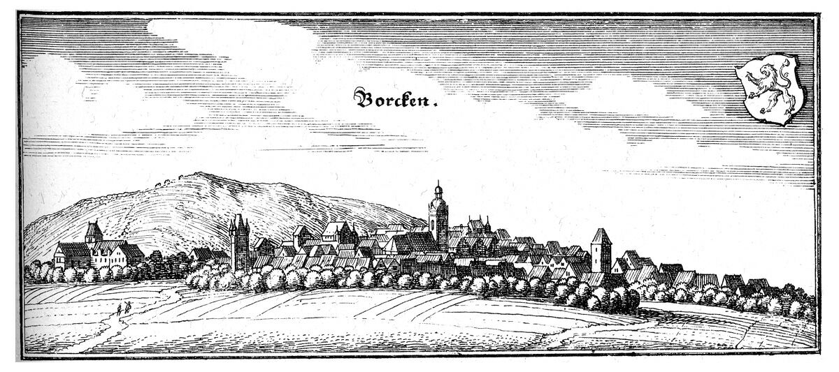 Copperplate engraving of Borken (Hess) at 1646